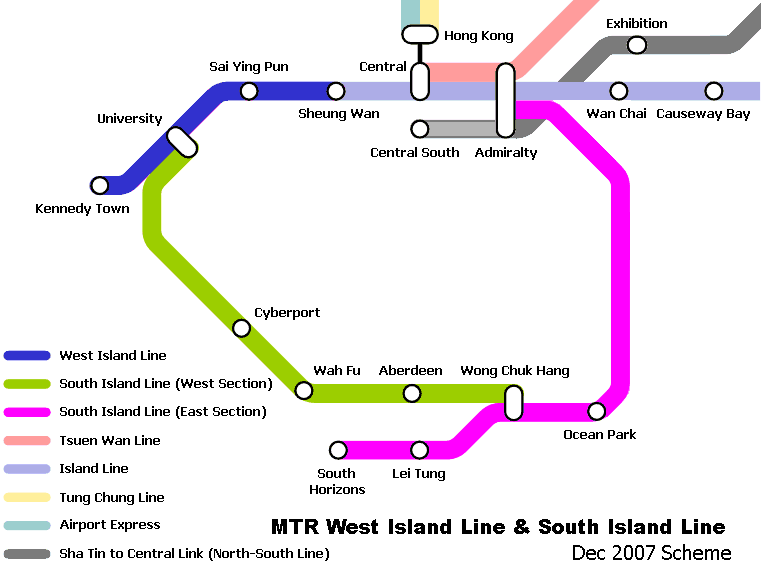 Modified Hong Kong MTR West Island Line and South Island Line proposal. (English version)